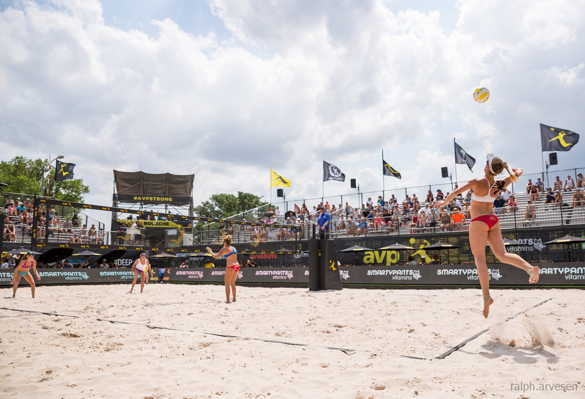 April Ross serving at the AVP Austin Open professional beach volleyball tournament in Austin, Texas on May 19, 2017.